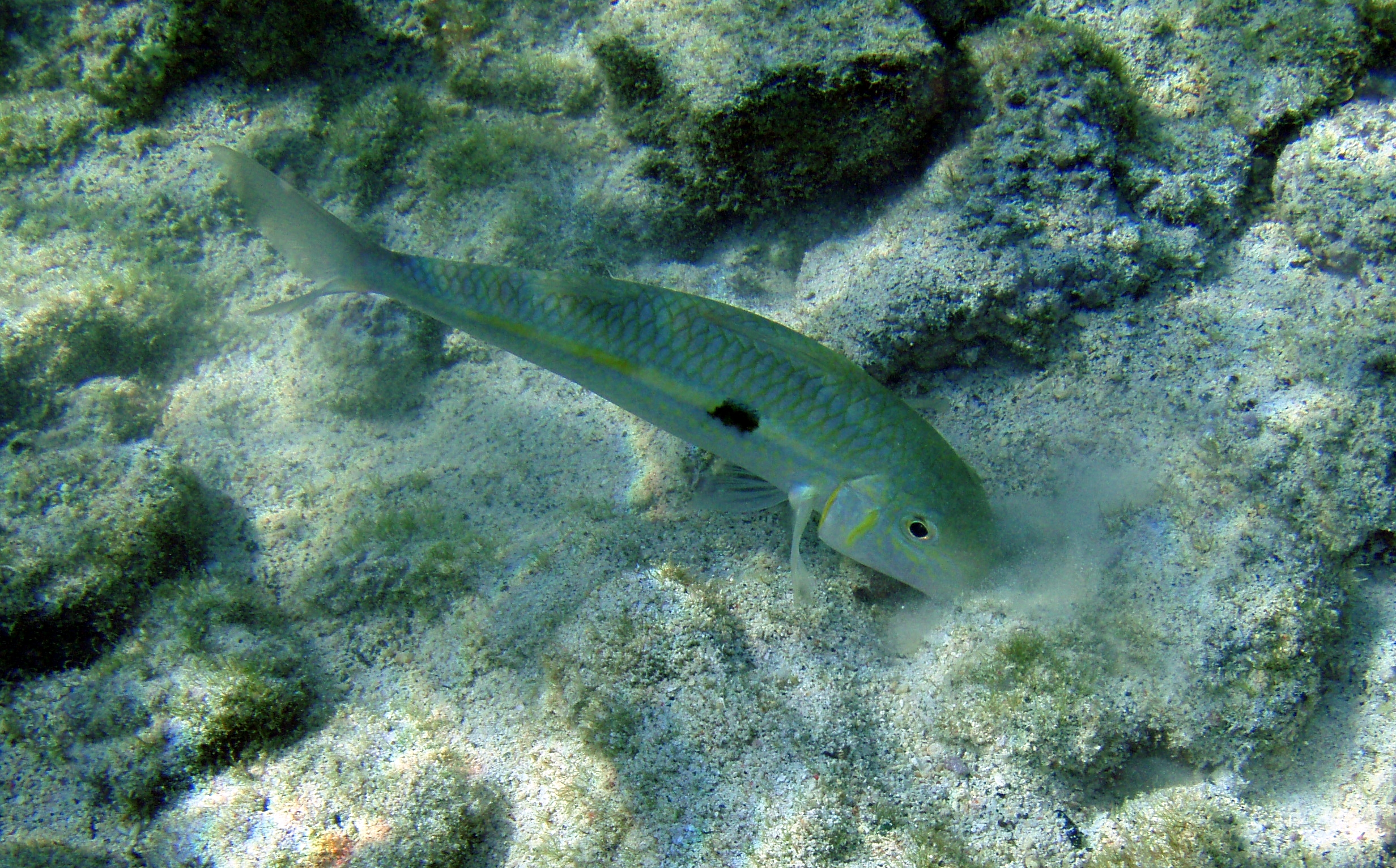 Goatfish,Mulloidichthys flavolineatusat Kona, Hawaii. The image was taken by Brocken Inaglory